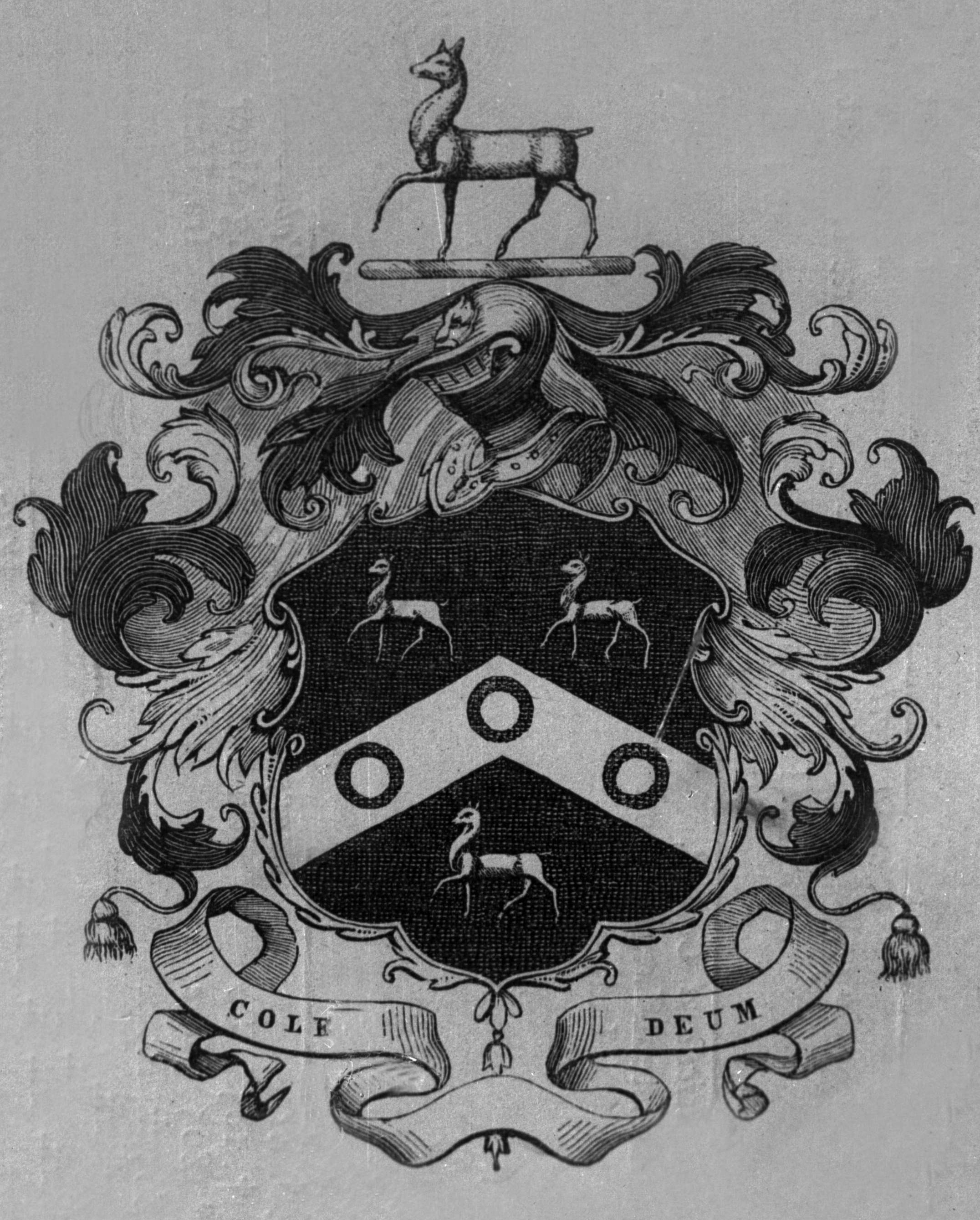 COA of the Collett family of Norway